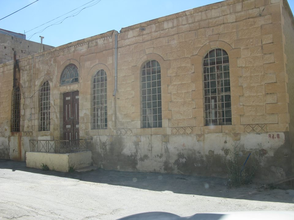 An Old Palace was owned by Emir Soultan Harfouche before being taken by the Ottoman empire